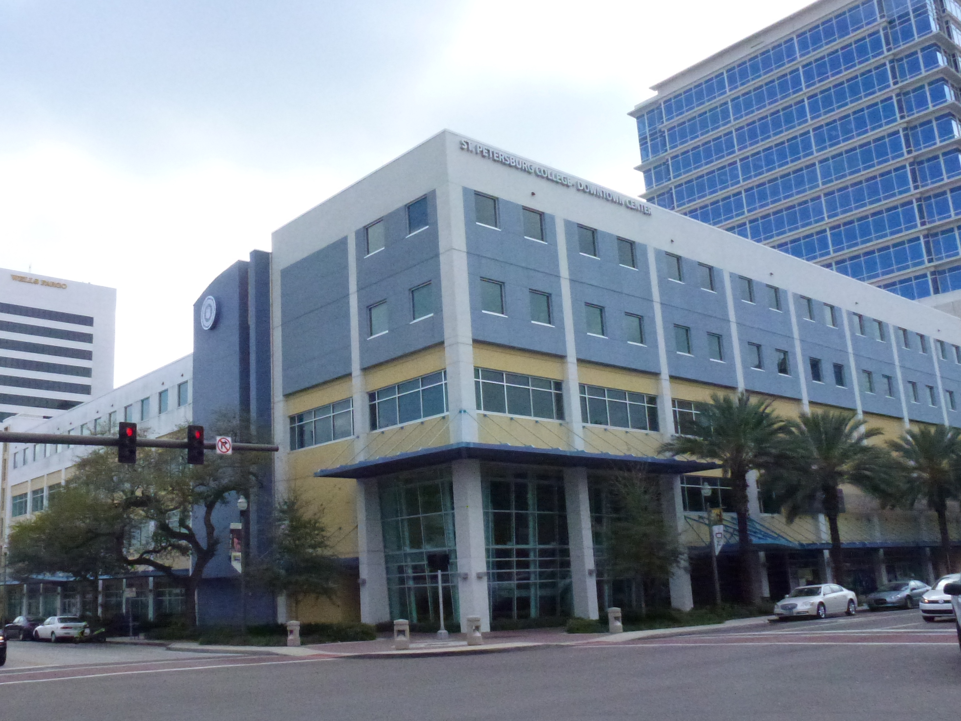 The Northwest corner of the Saint Petersburg College Downtown Center, in downtown St. Petersburg, Florida USA.